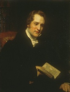 Joseph Henry Green, by Thomas Phillips RA (1770–1845),. Professor of Painting at the Royal Academy (1825–32). Oil on canvas; unsigned and undated